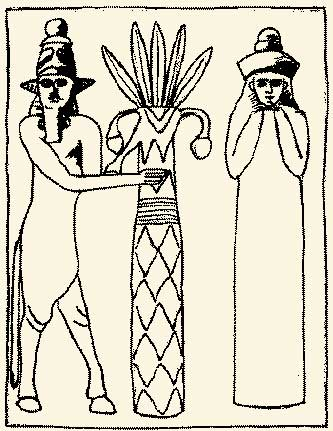 Drawing of Enlil and Ninlil taken from a mural decoration of Susa. Lord Enlil (with hooves and horns of the Bull God) and the Lady Ninlil. Second half of the 2nd millenium BC, Louvre, Paris. Baked bricks, height 54 inches.